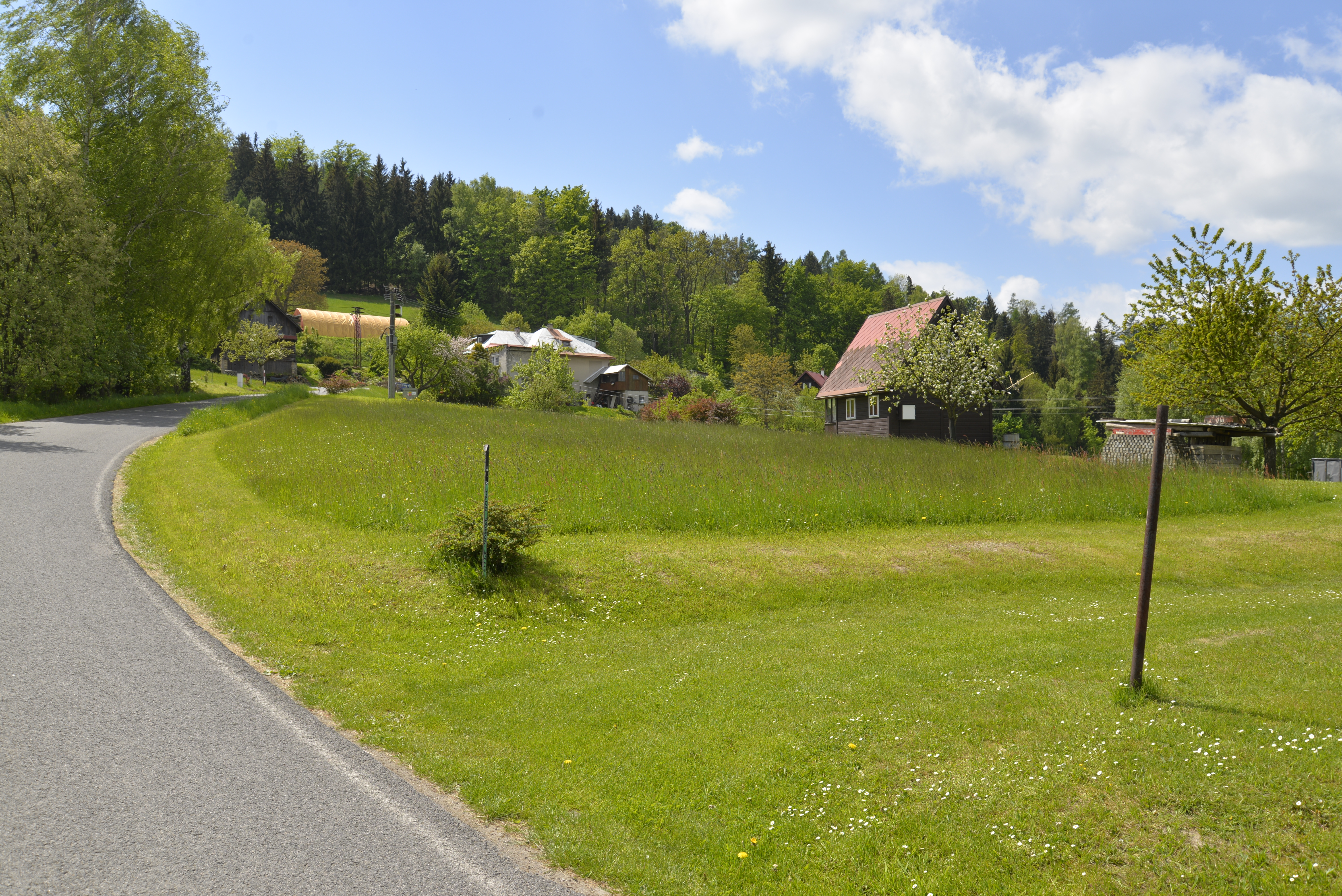 View from the road Chloudov.